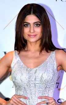 Shamita Shetty grace Vogue Beauty Awards 2017